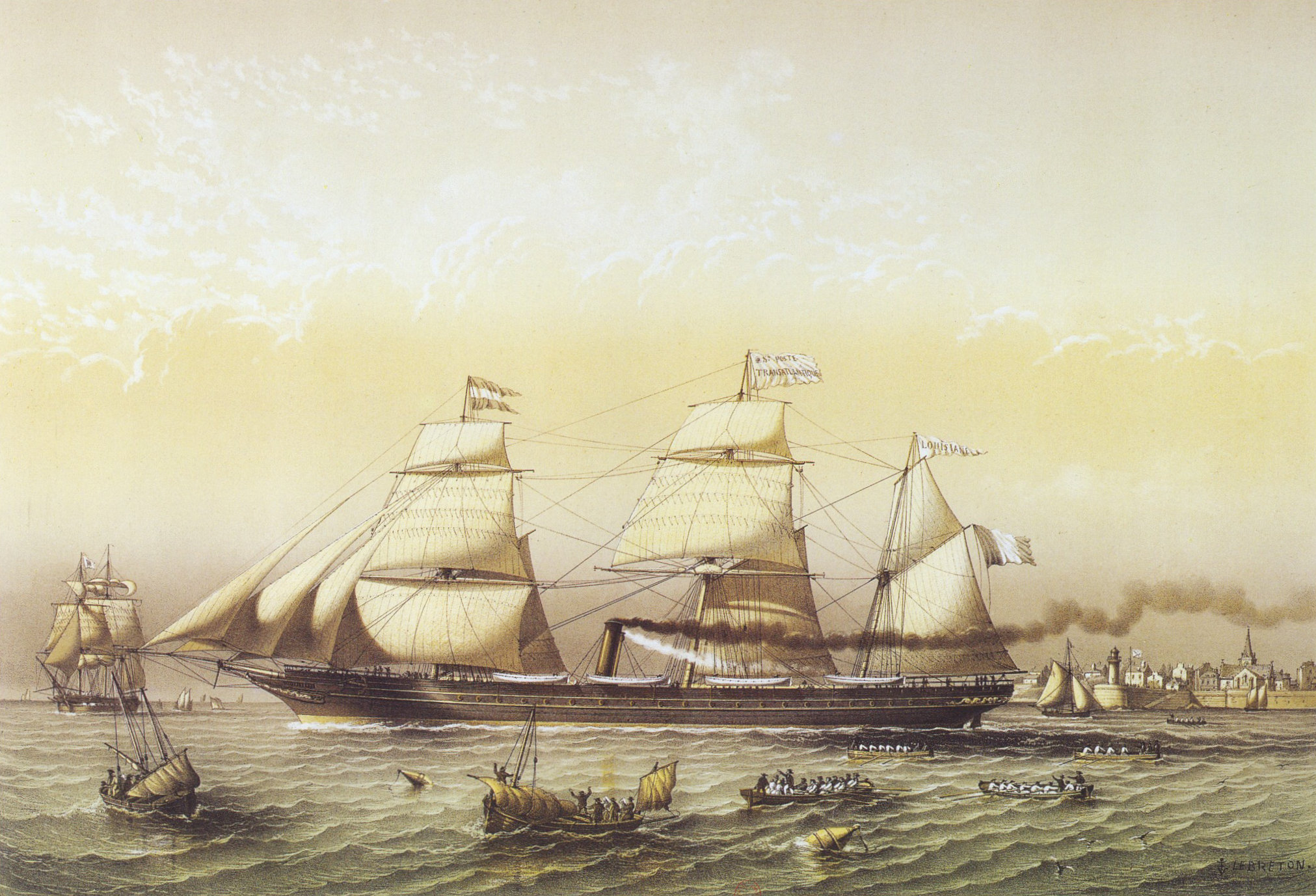 Steamer Louisianne at the Inauguration of the Saint-Nazaire - Vera-Cruz line, on 14th of April 1862